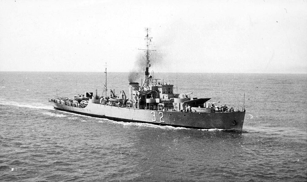 Heroína (P 32) ex-USS Reading (PF 66)